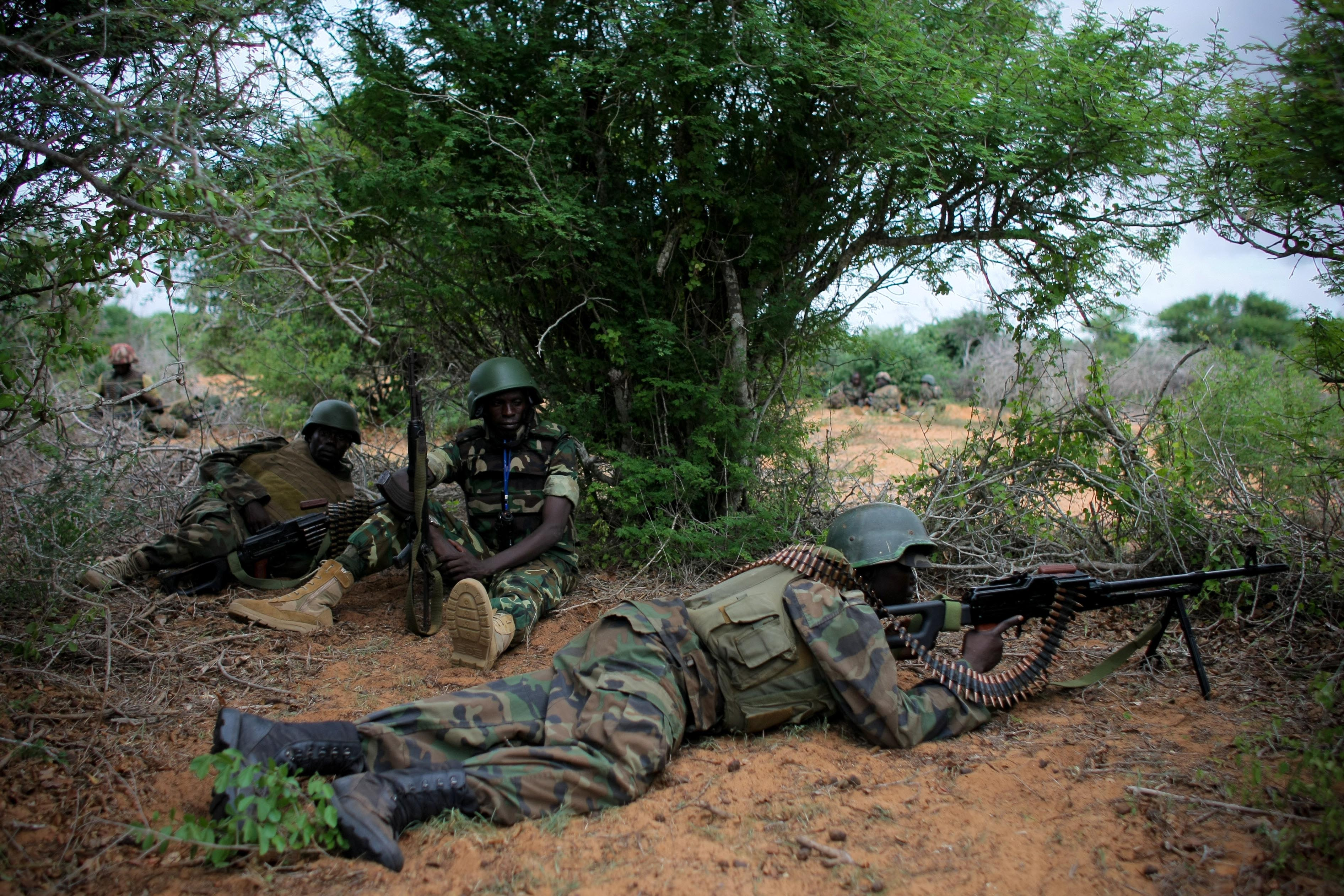 A soldier serving with the African Union Mission in Somalia (AMISOM) takes up a defensive position during a firefight 22 May, during a joint AMISOM and Somali National Army (SNA) operation to seize and liberate territory from the Al-Qaeda-affiliated extremist group Al Shabaab. AMISOM Force Commander Lt. Gen Andrew Guti announced 22 May the beginning of 'Operation Free Shabelle' aimed at bringing security and econonic revival to the estimated 400,000 people of the Afgoye Corridor and beyond in the Lower Shabelle region of Somalia, located to the south and west of the country's capital Mogadishu. AU-UN IST PHOTO / STUART PRICE.